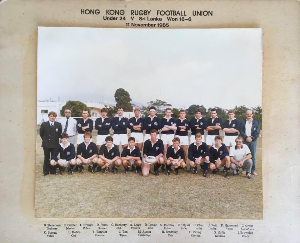 Hong Kong Rugby U24 team 1985